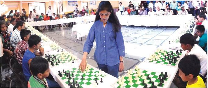 International chess player Rucha Pujari plays against 38 players in simultaneous chess exhibition in Kolhapur.